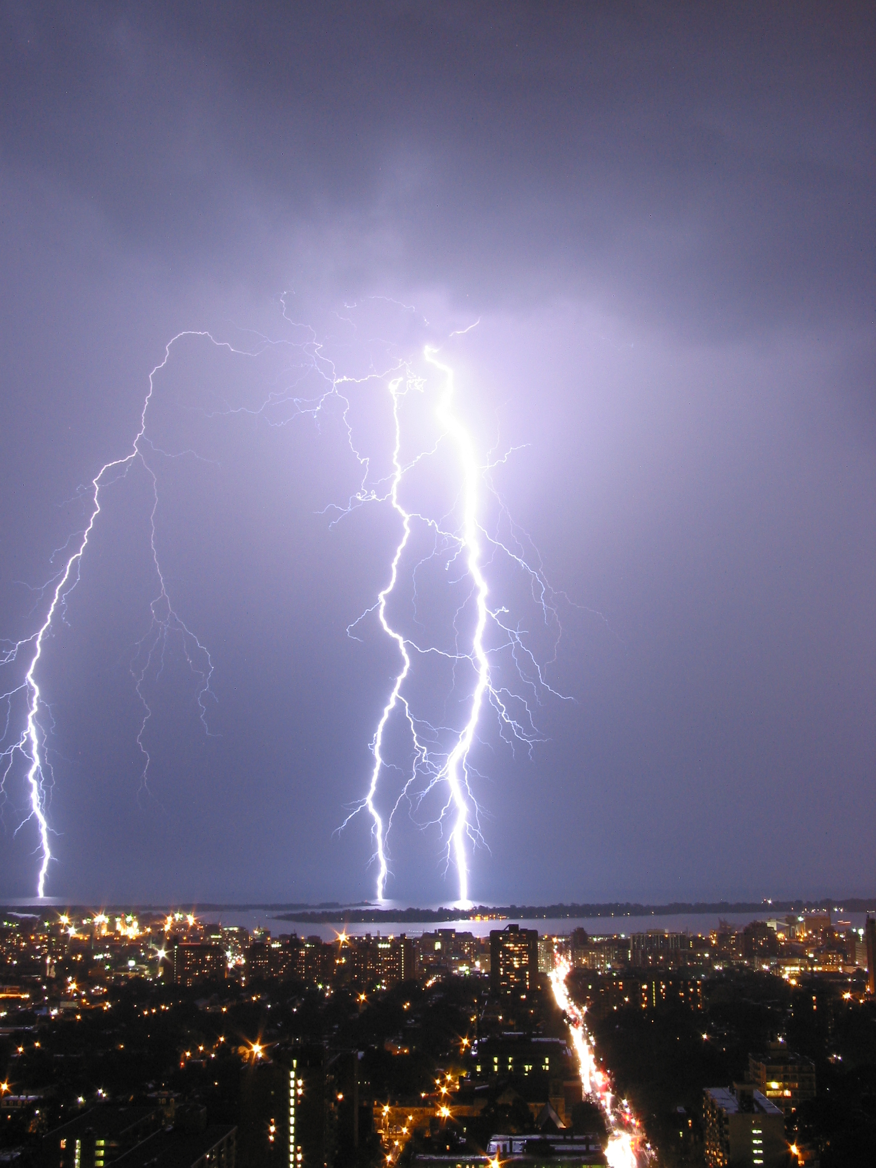 2003-Aug-23 - Toronto thunderstorm